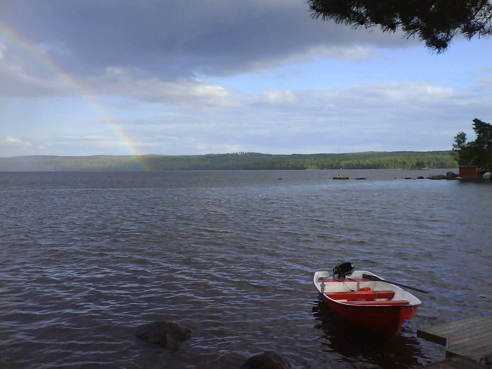 Lake Tisaren view towards east.